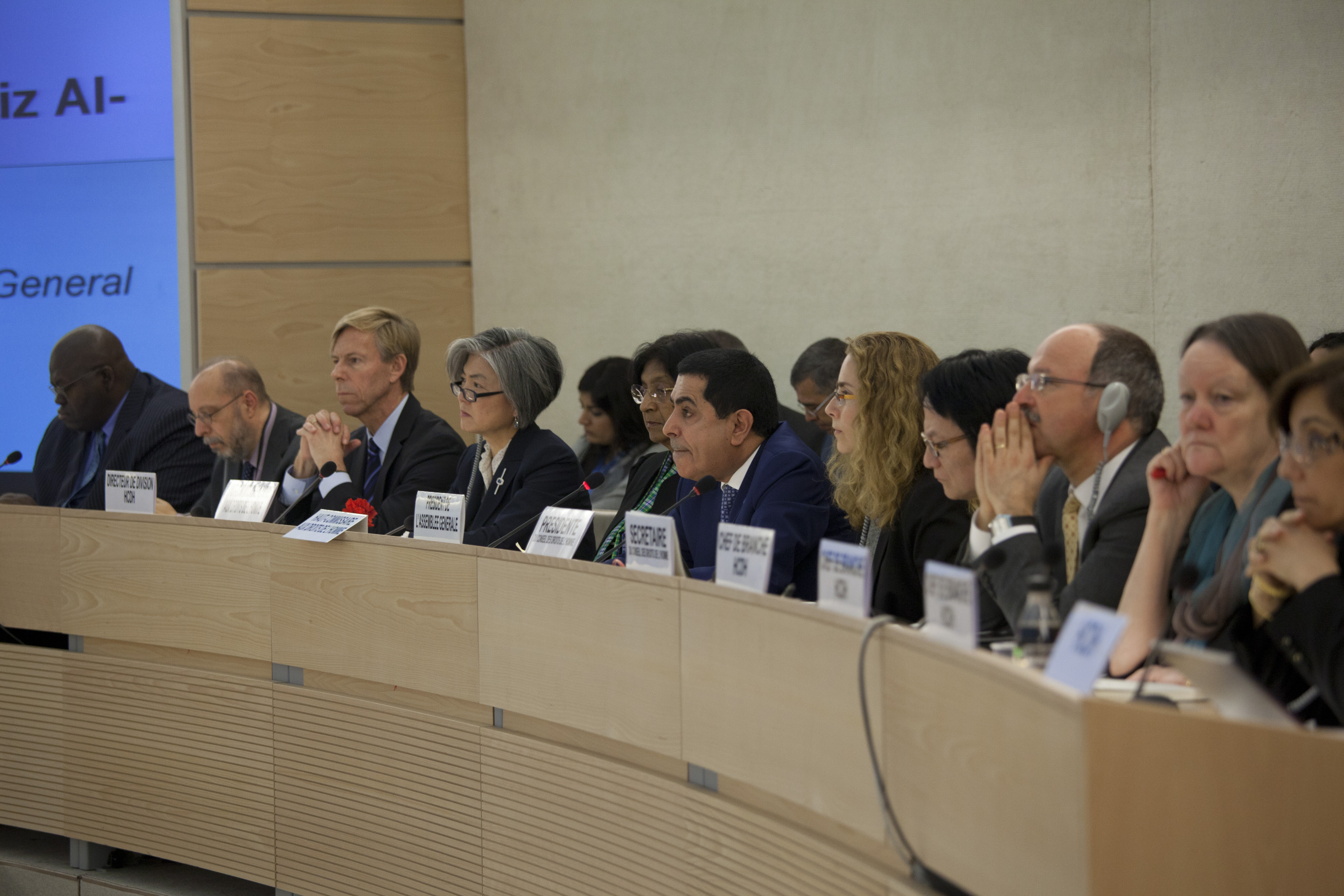 High Commissioner for Human Rights Navi Pillay, HRC President Laura Dupuy Lasserre and members of the HRC / OHCHR secretariat at the opening of the Human Rights Council urgent debate on Syria. Esther Brimmer, U.S. Assistant Secretary of State for International Organization Affairs, addressed the Human Rights Council Urgent Debate on Syria February 28. The text of Secretary Brimmer’s statement can be found here: U.S. Mission Photo by Eric Bridiers